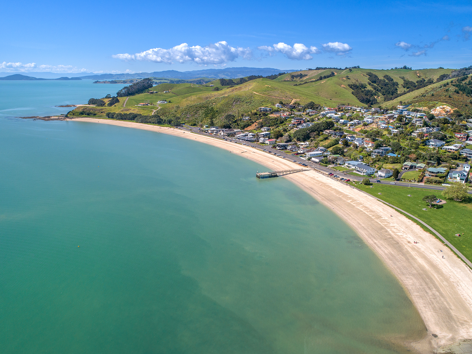 Aerial view of Maraetai showing wharf and township